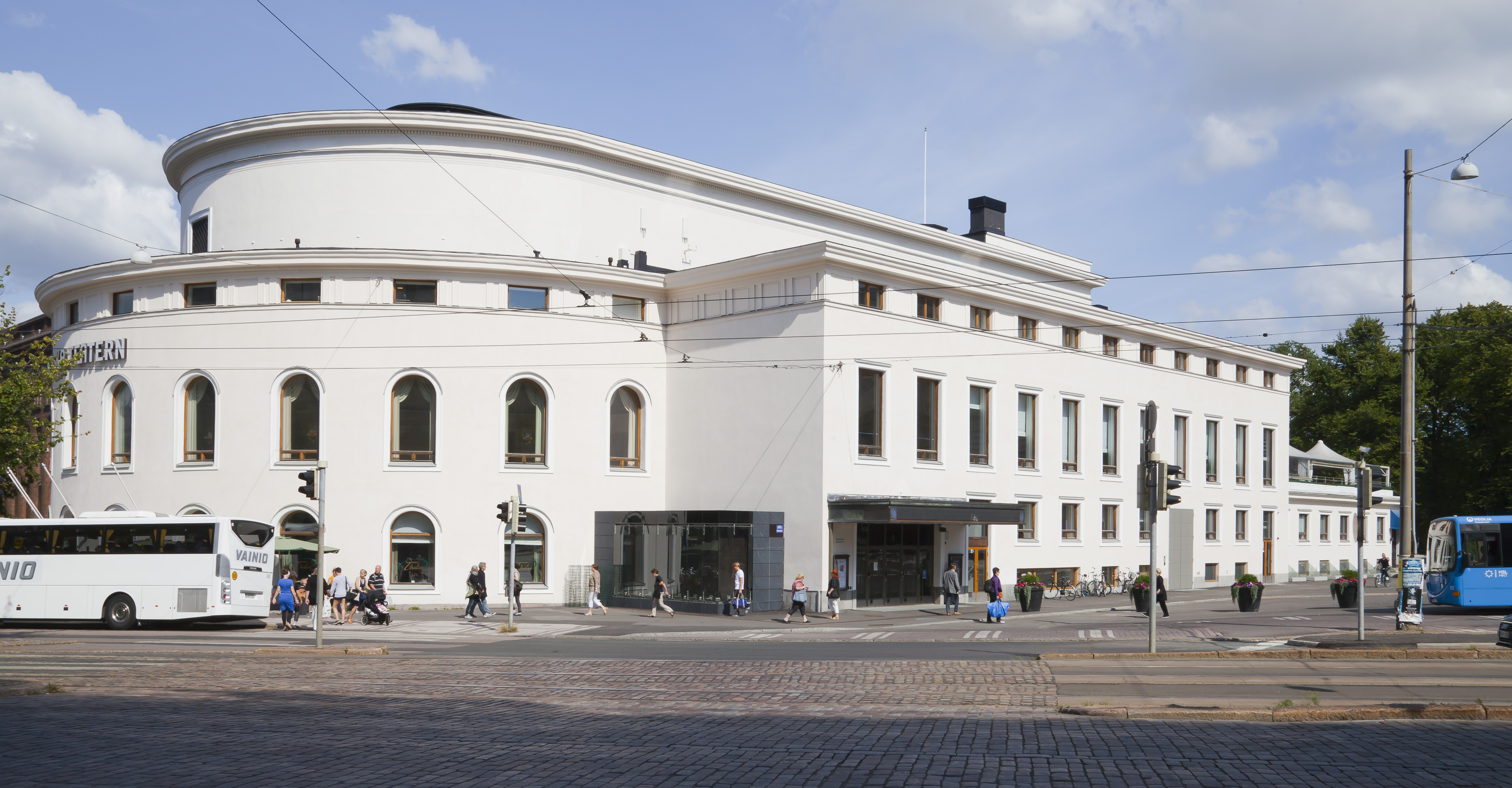 Swedish Theater, Helsinki, Finland